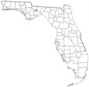 Created from map already existing on Wikipedia